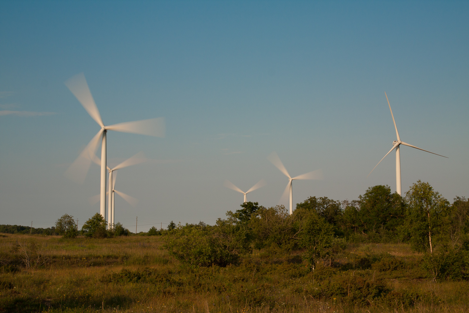 exposure info: 0,3sec 36mm at f10, ND64 filter